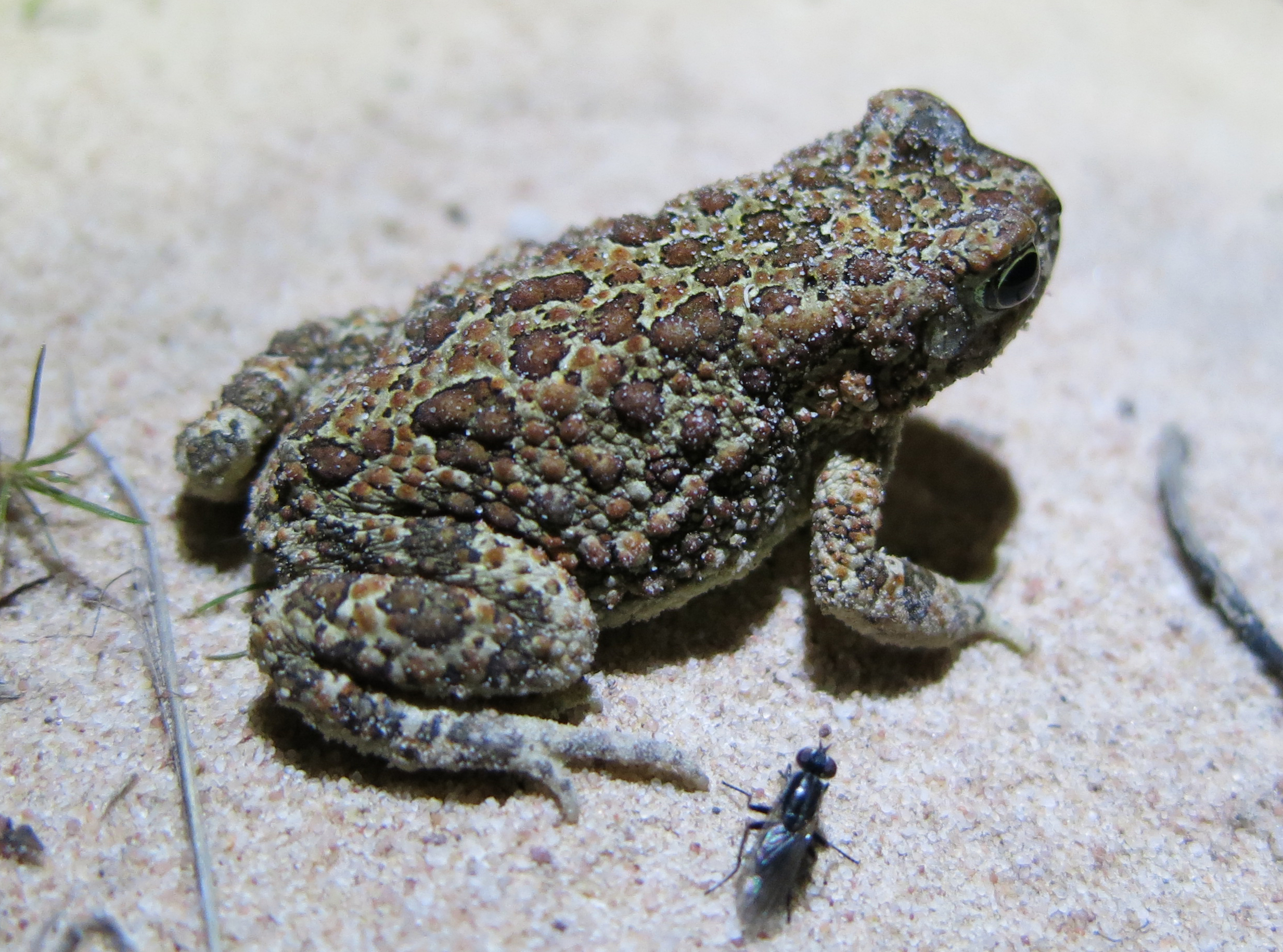 Poyntonophrynus fenoulheti, Limpopo, South Africa